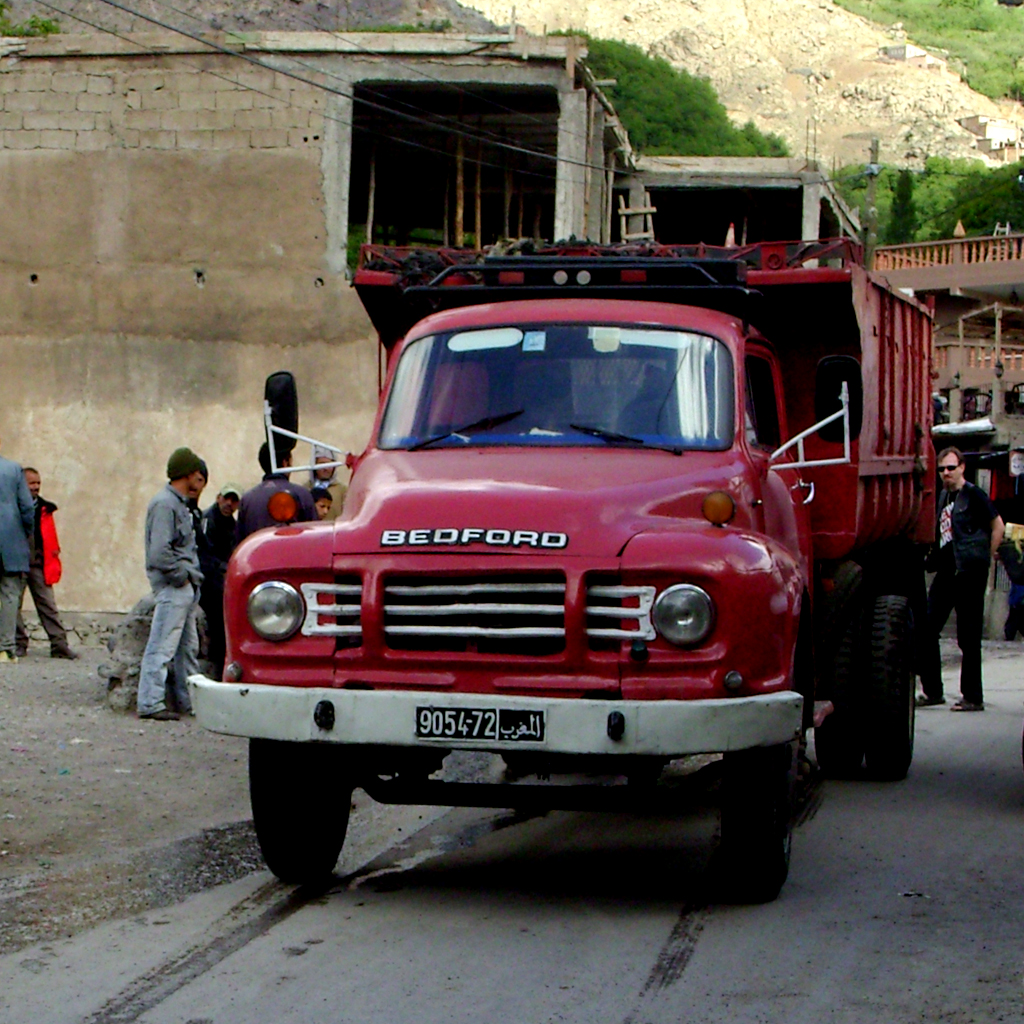 Bedford A truck in Morocco